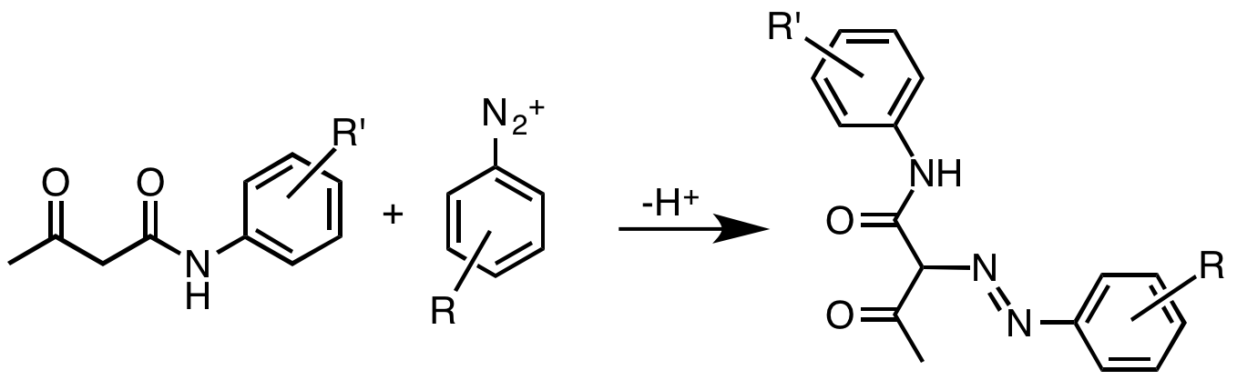 corrected prep of Hansa Yellow